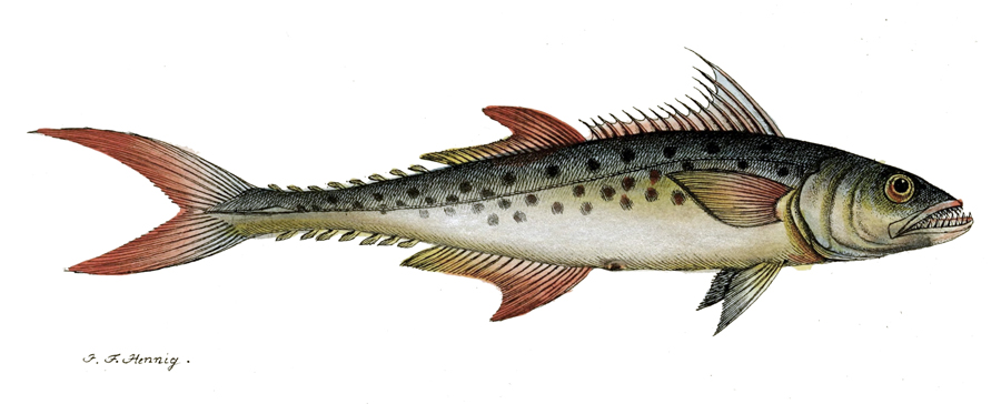 Scomberomorus guttatus